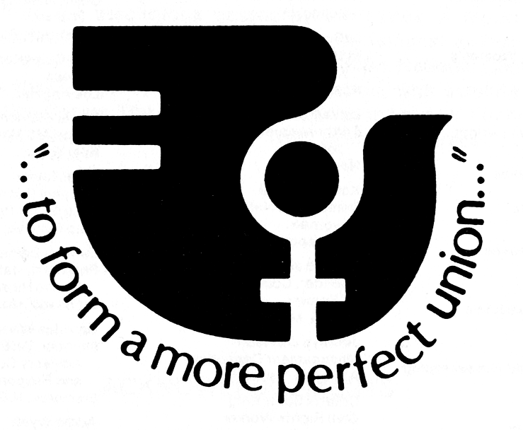 Adapted from the United Nations' official logo for International Women's Year, the U.S. National Commission on the Observance of International Women's Year adds the words "to form a more perfect union" – a reference to the preamble of the United States Constitution. The original UN symbol, designed by Valerie Pettis, employs the mathematical symbol for equality (=), the scientific notation for female, and the dove for peace.